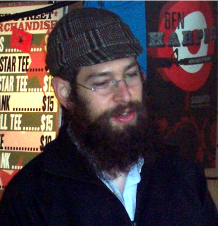 Reggae and hip-hop artist Matisyahu signing autographs at the Sasquatch 06 event in George, Washington